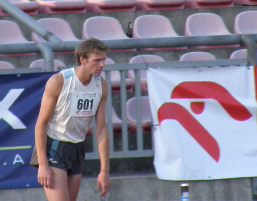 Grzegorz Sposób (high jump) in Warsaw (Poland) - 2010 Janusz Kusociński Memorial